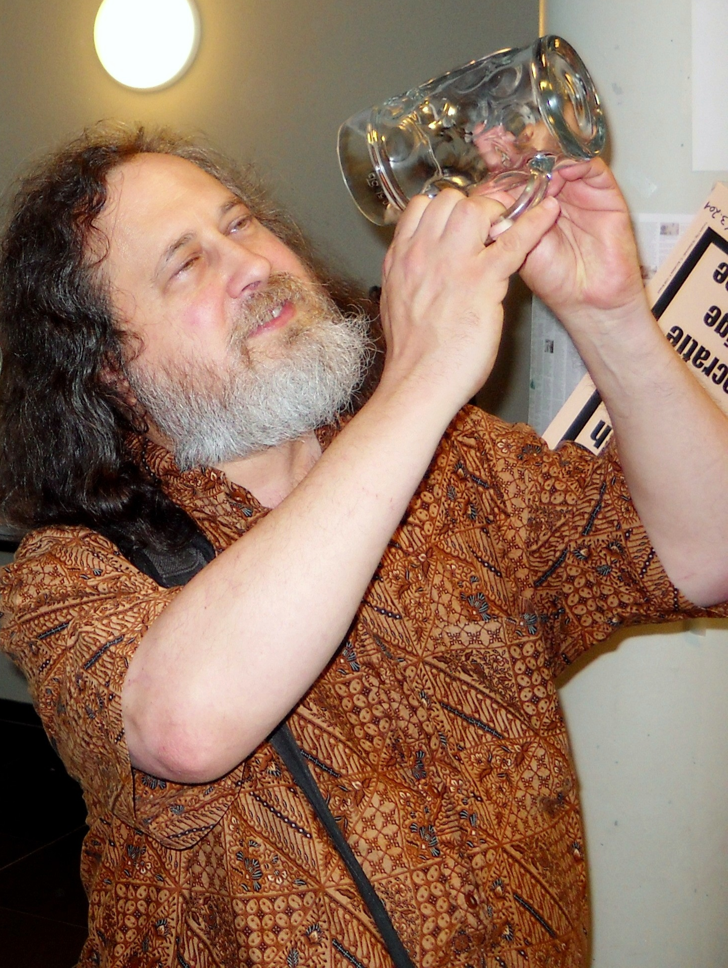 Richard Stallman illustrating his famous sentence "free as in free speech not as in free beer", with a beer glass. Brussels, RMLL, 9 July 2013